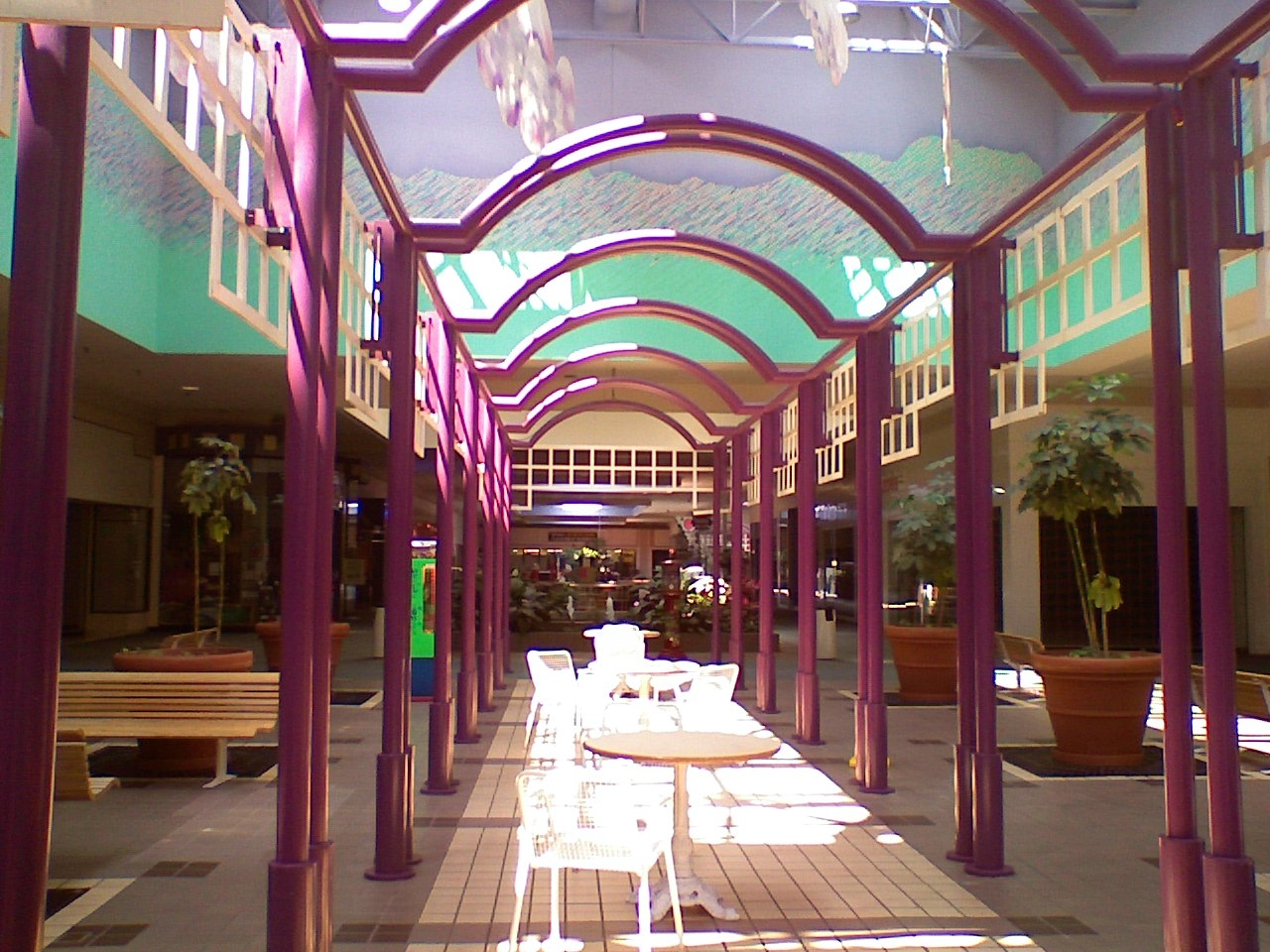 Woodville Mall 2008; Center Court Looking Towards the Anderson's Store